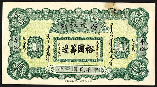 A banknote issued when the Republic of China administered the Chinese Mainland.